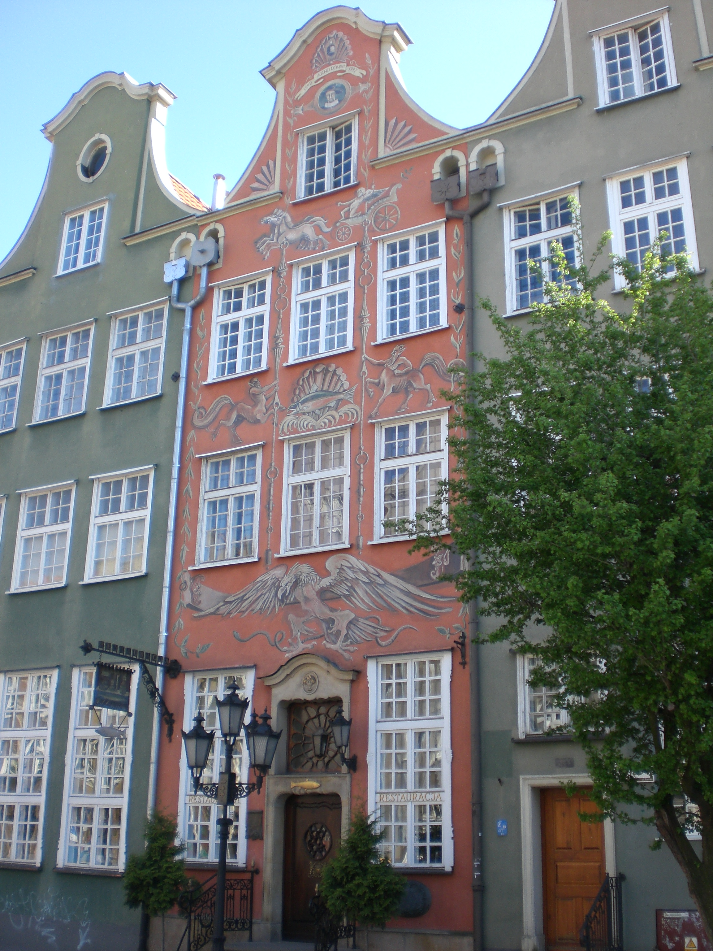 Szeroka Street in Gdańsk